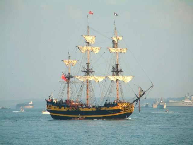 Grand Turk, off Southsea, 27th June 2005. Ships assembling for the next day's Trafalgar Celebrations in Portsmouth. Grand Turk took the part of Nelson's Victory in a battle re-enactment. Grand Turk is probably at SZ 640 963. No Man's Land fort is beyond.